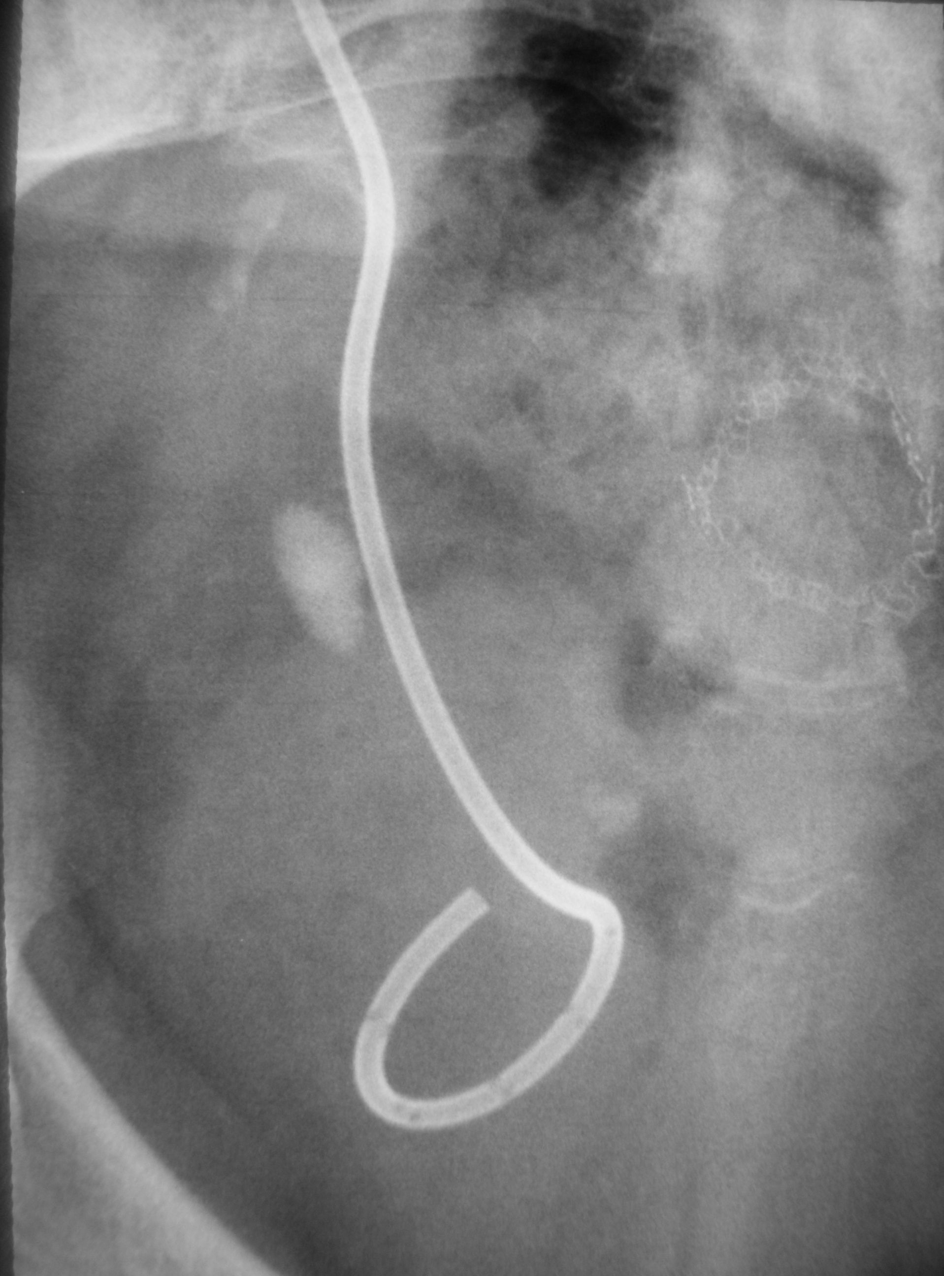 Large Stone in the distal right Ureter after Placement of a Double-J-Stent